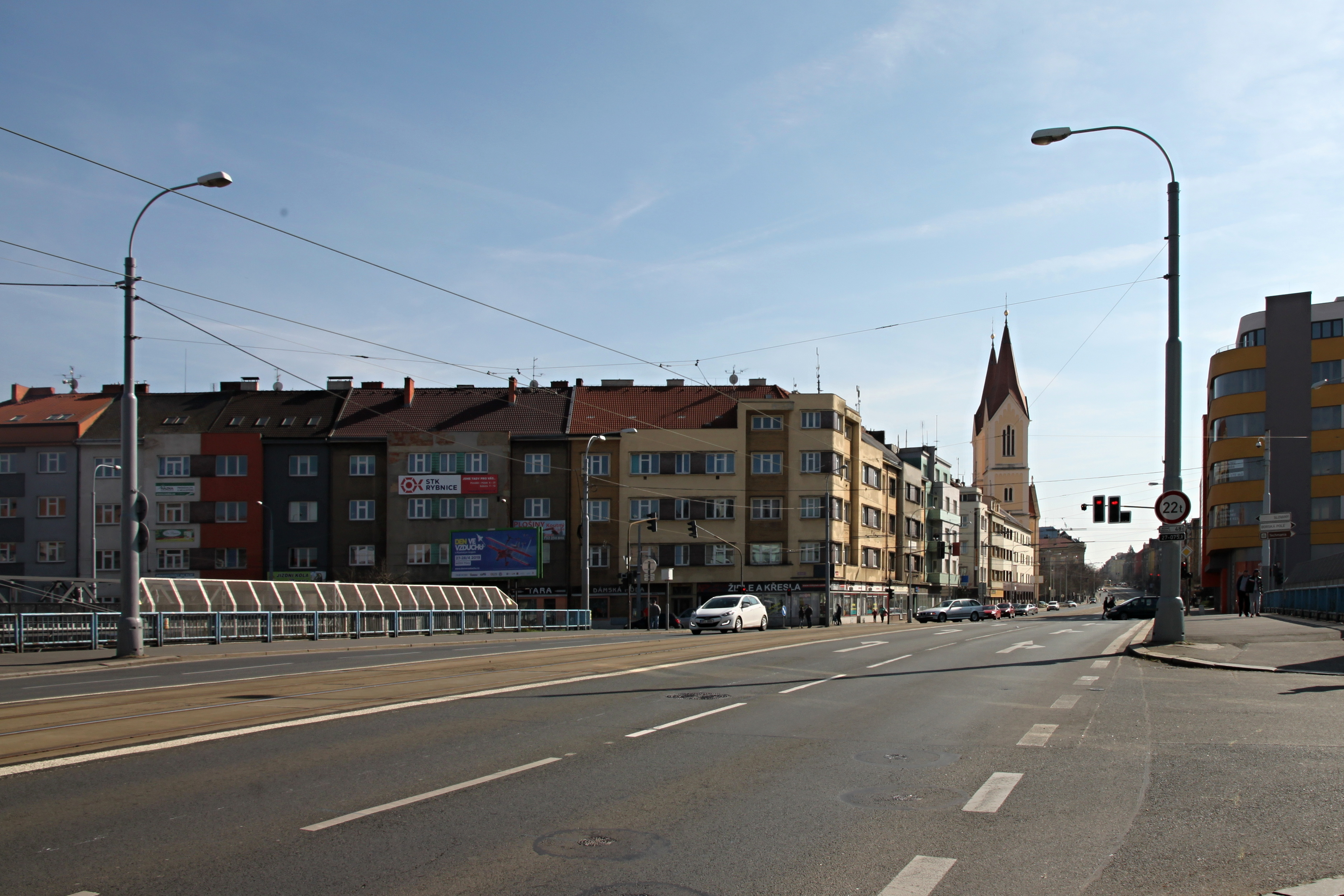 Klatovská Street, Pilsen, Czechia.